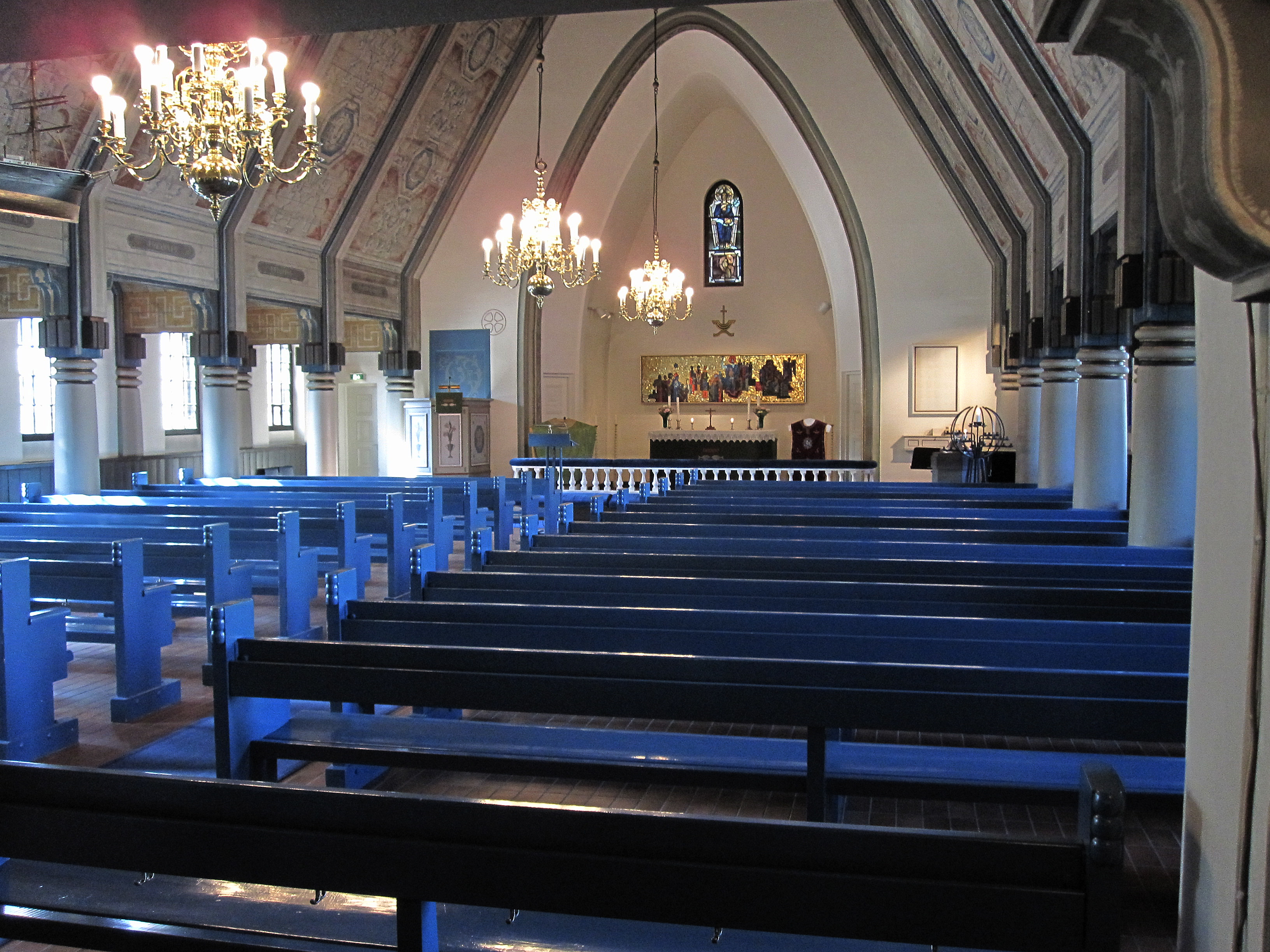 Interior of Saint George Church in Mariehamn, Åland, Finland